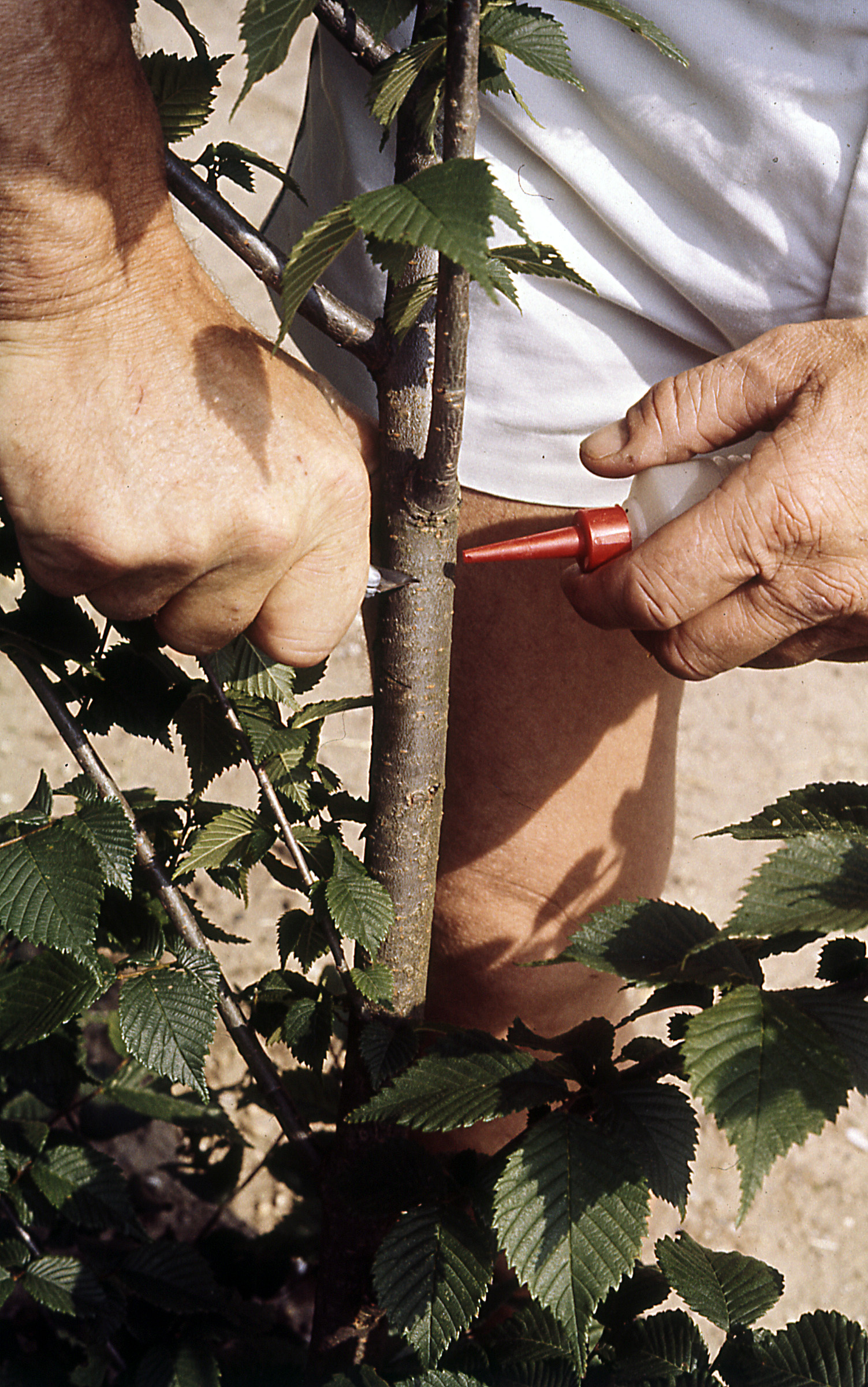 Artificial inoculation of virulent strains of Ophiostoma in elm cambium - Wageningen - DORSCHKAMP Institute for forestry and landscape planing 1984.06.19 (photo: Mihailo Grbić)